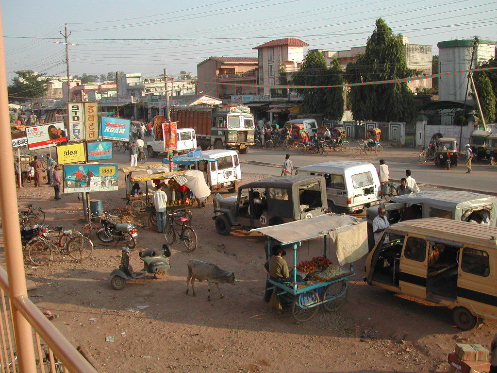 This is the busy main street of Satna, a city in northern Madhya Pradesh, India.and photo taken from Coffie house Satna